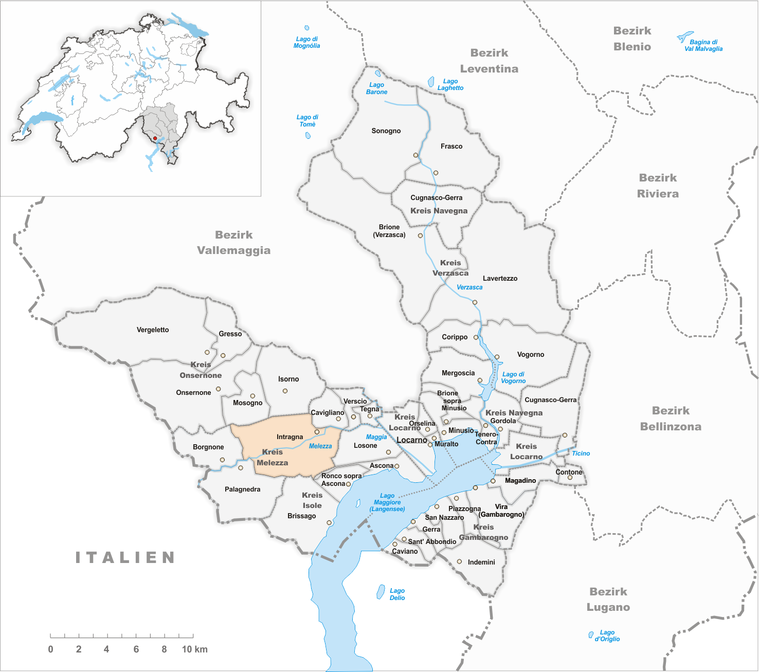 Municipality Intragna